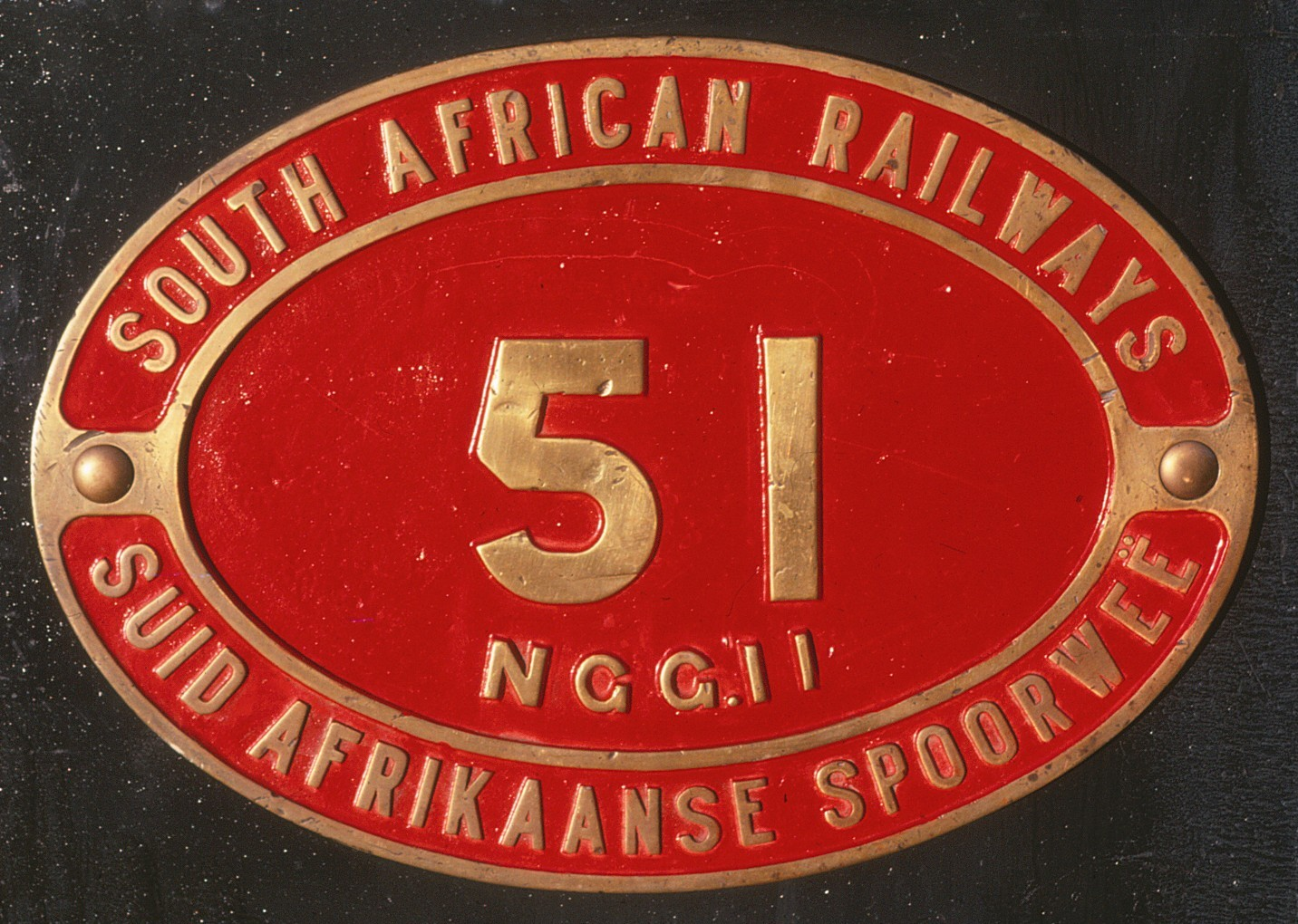 SAR Class NG G11 no. 51 number plate